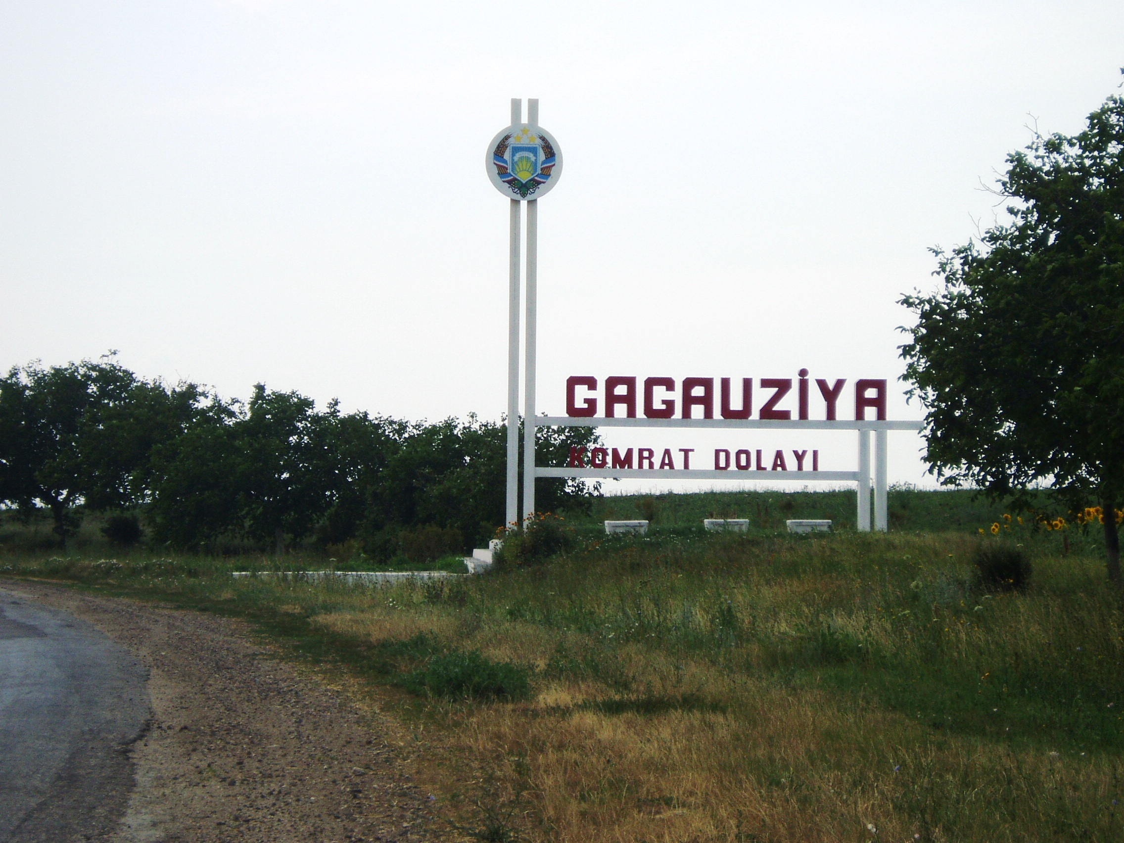 On the way from Chisinau to Comrat: GAGAUZIYA - COMRAT DOLAYI in Moldova.